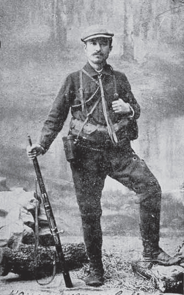 IMARO member Naum Anastasov Tsvetinov, chief of the Ohrid gorsko nachalstvo during the Ilinden Uprising